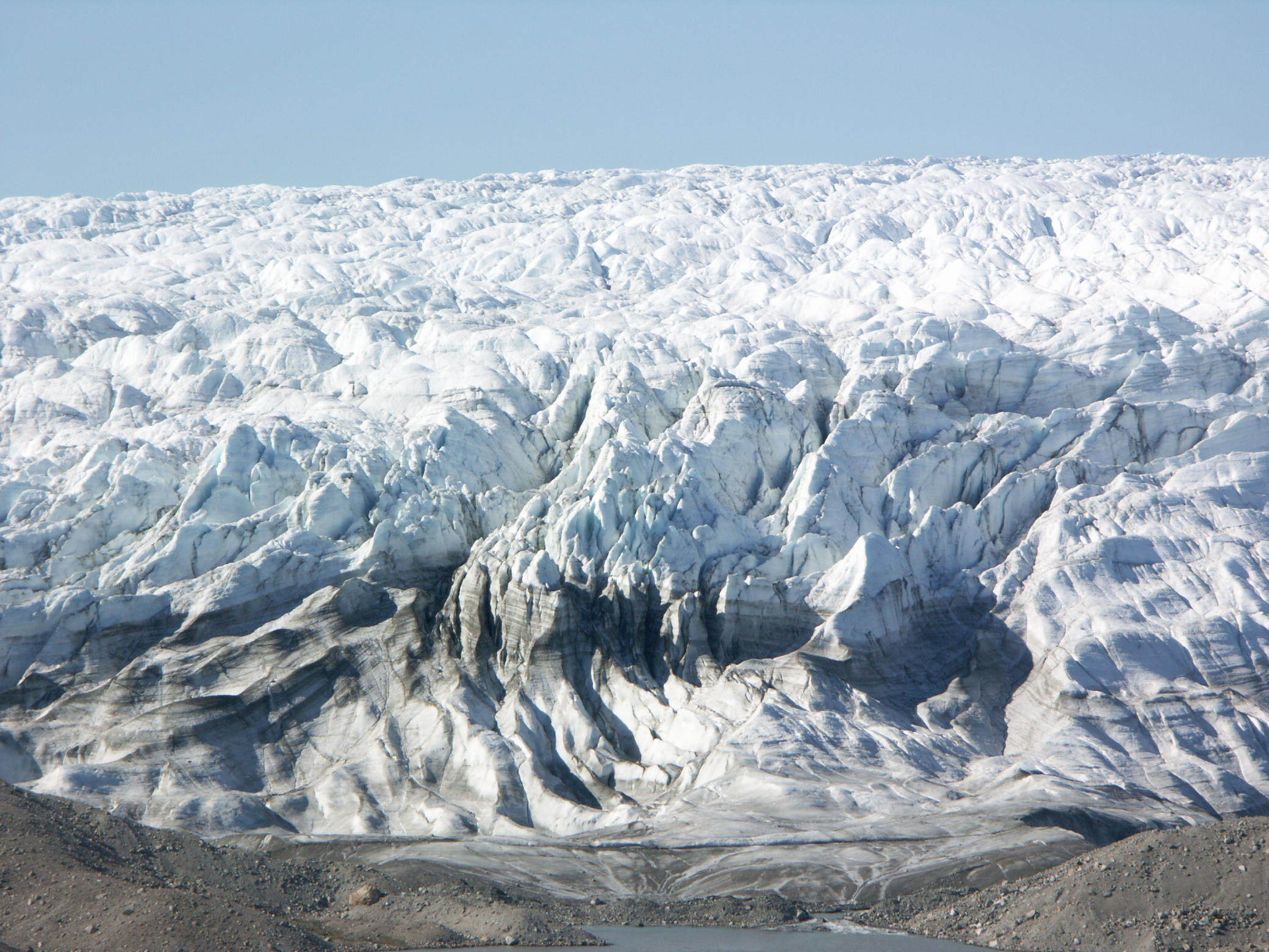 Isunnguata Sermia glacier, western-central Greenland. photograph from the south, from the highlands of Isunngua.